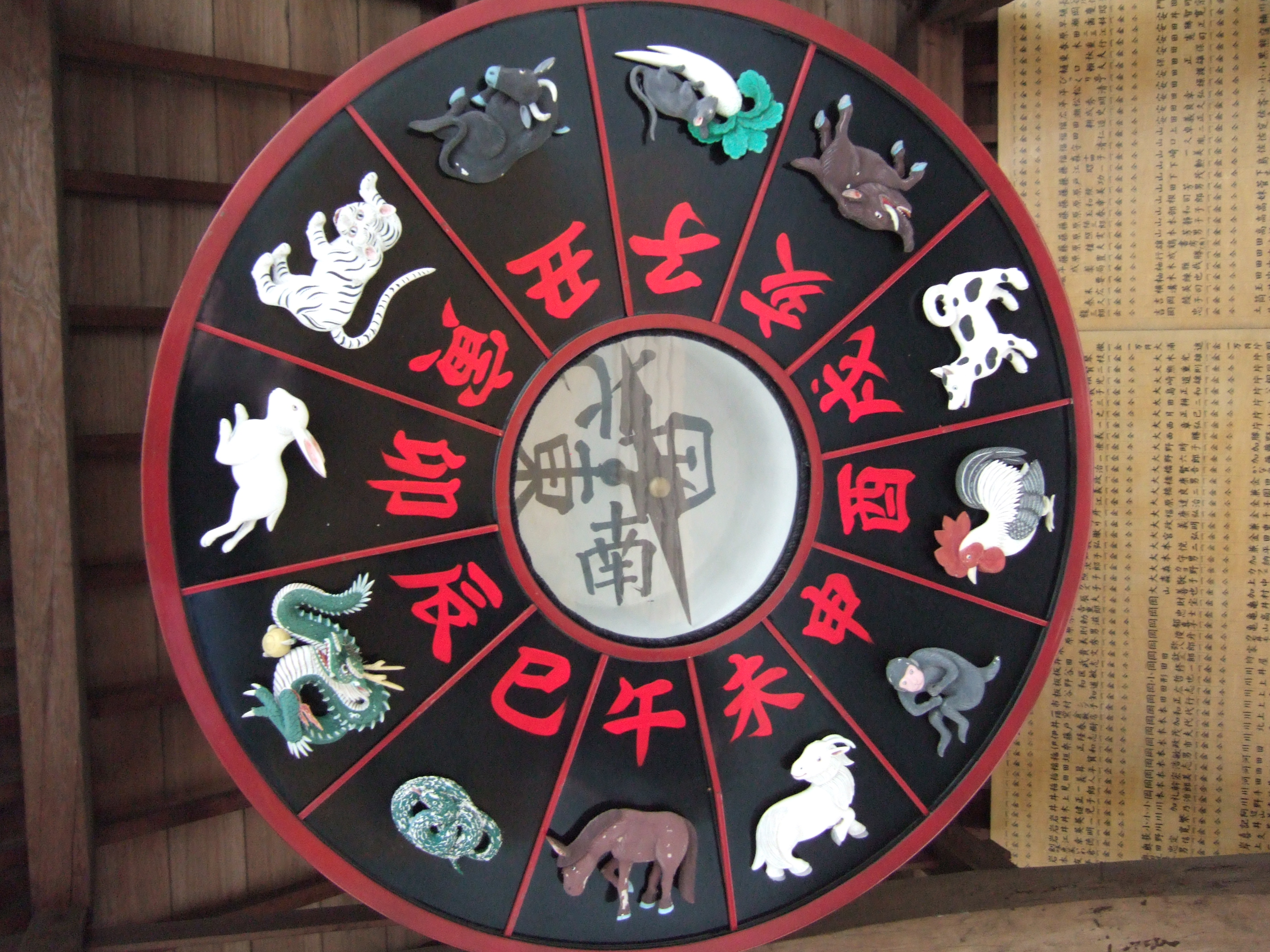 Chinese Astrology Symbols Suspended from the roof of a temple bulding in Kurashiki, Japan